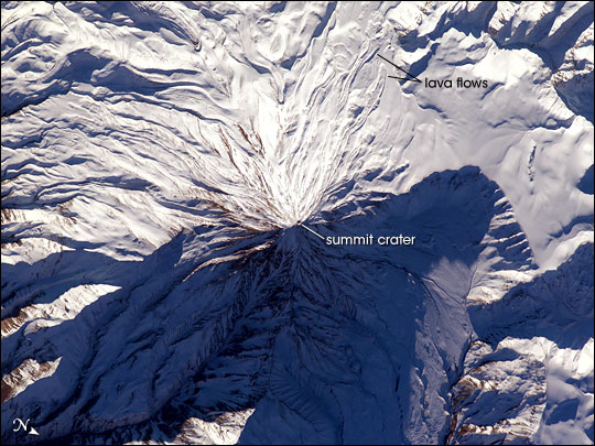 Mount Damavand seen from space. image description here